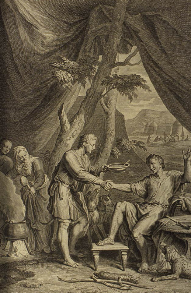 Esau Sells His Birthright for Pottage of Lentils, as in Genesis 25:32-33, "And Esau said, Behold, I am at the point to die: and what profit shall this birthright do to me? And Jacob said, Swear to me this day; and he sware unto him: and he sold his birthright unto Jacob."; illustration from the 1728 Figures de la Bible; illustrated by Gerard Hoet (1648-1733) and others, and published by P. de Hondt in The Hague; image courtesy Bizzell Bible Collection, University of Oklahoma Libraries